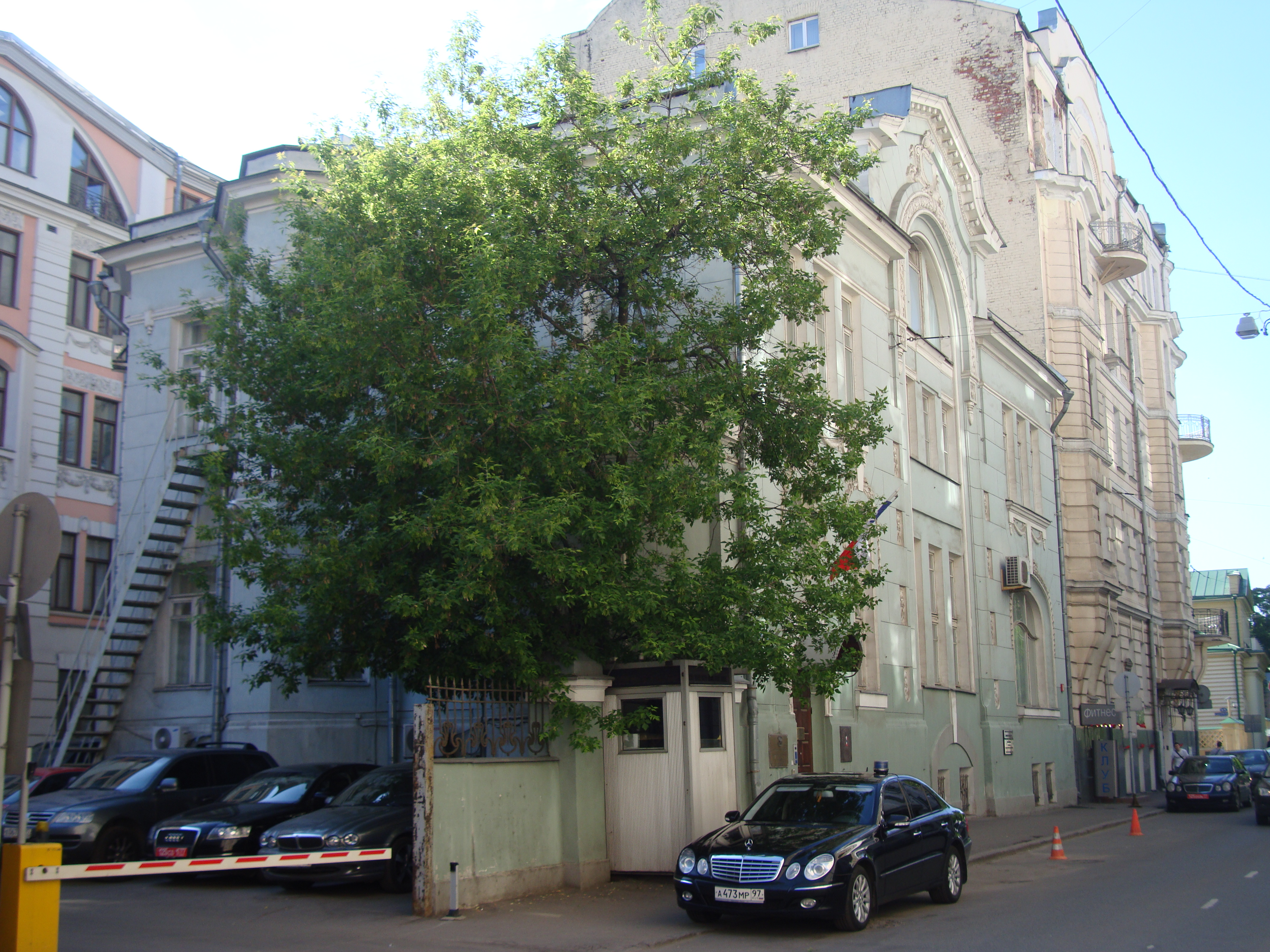 7 Denezhny Lane, Khamovniki District, Moscow, Russia. Embassy of Chile.